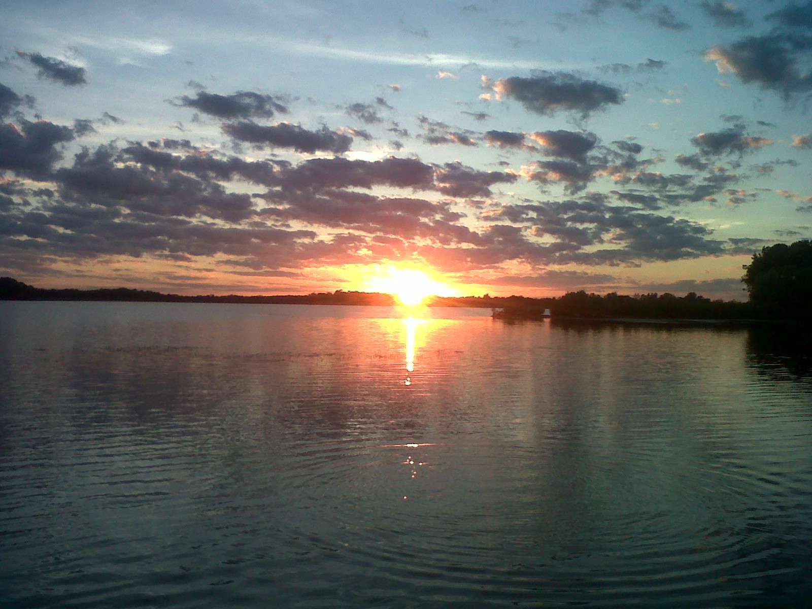 Summit Lake at Sunset